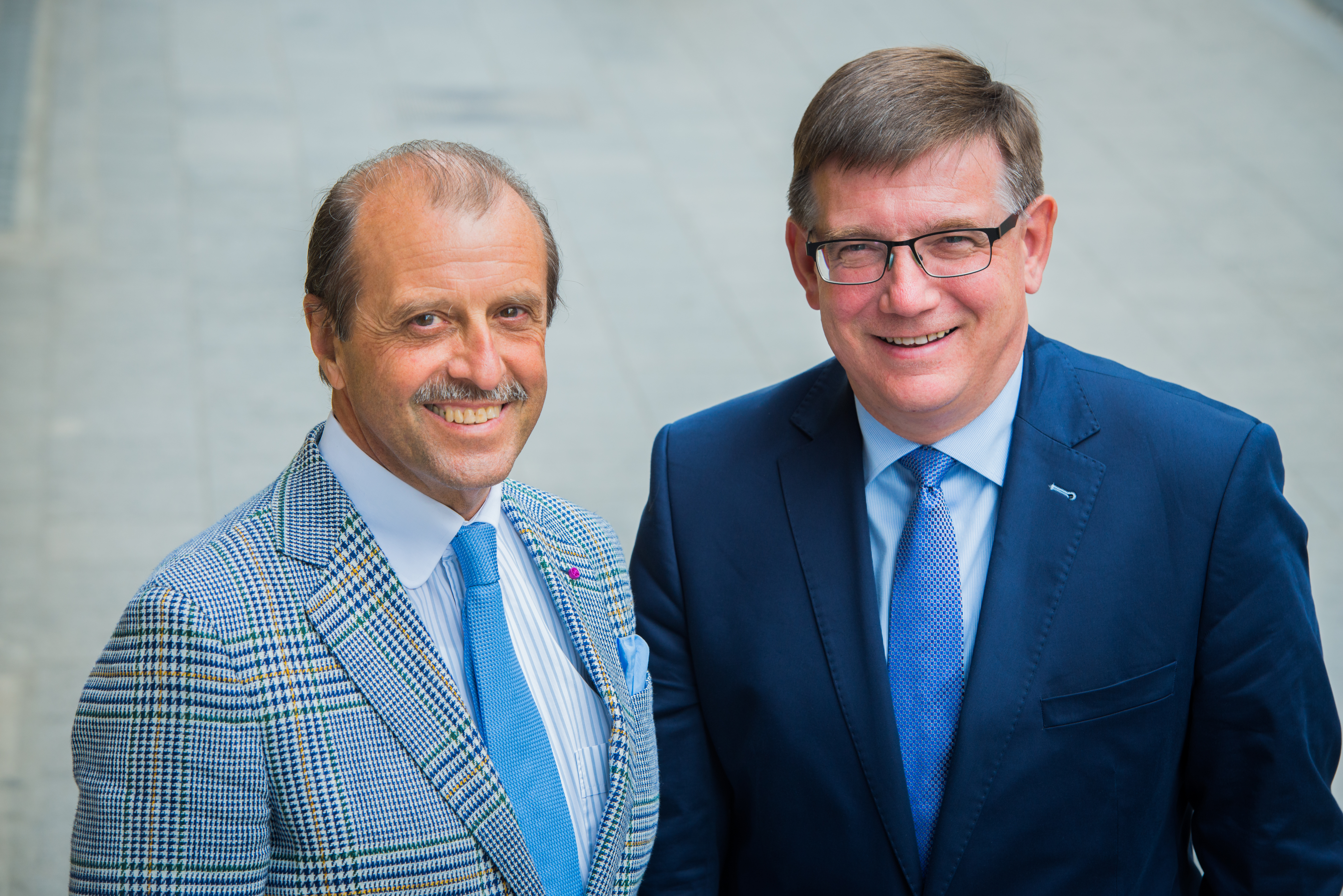 Paul Kumpen (Voorzitter Voka) en Hans Maertens (Gedelegeerd Bestuurder Voka)